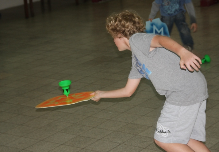 Running with a small footop on a lifting board